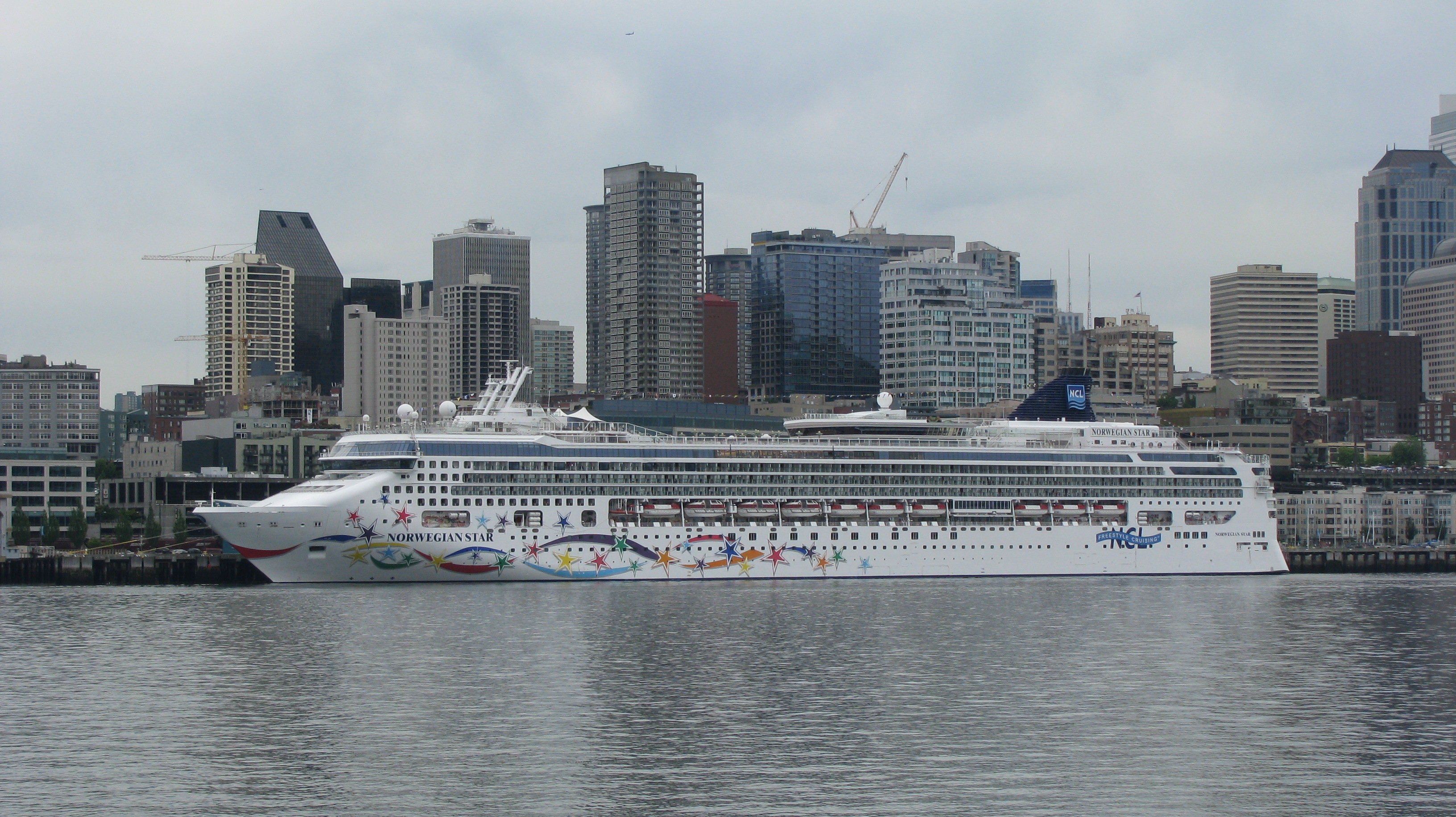 Norwegian Star in Seattle, WA